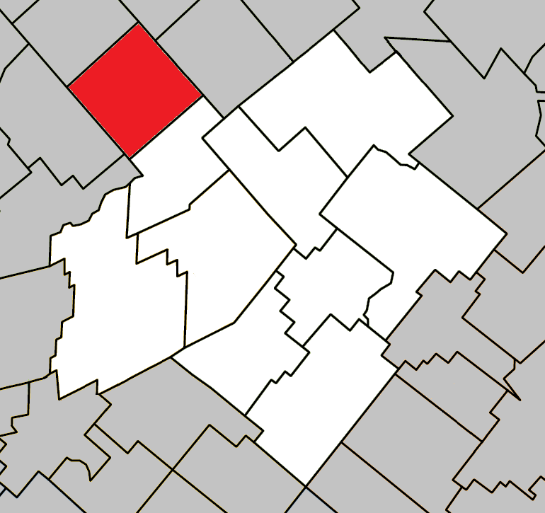 Location of Villeroy, Quebec within L'Érable Regional County Municipality.